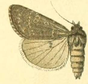 Image from Plate 6 of Die Gross-Schmetterlinge der Erde (The Macrolepidoptera of the World) Vol. 3